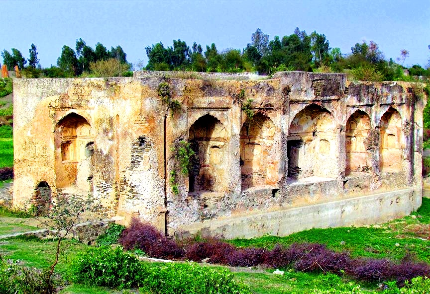 Rang Mahal